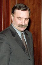 Ruslan Aushev, a Russian politician, the first president of Ingishetia